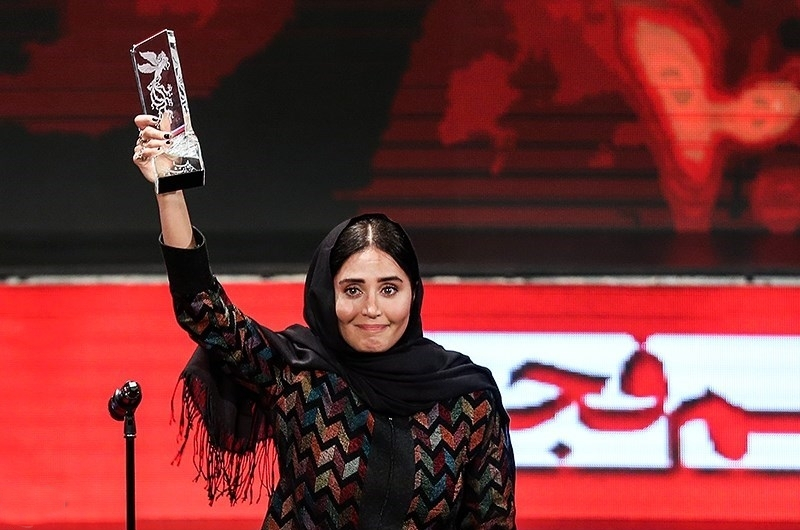 Elnaz Shakerdoust won the best actress Crystal Simorgh for playing When the Moon Was Full movie in 37th Fajr movie festival